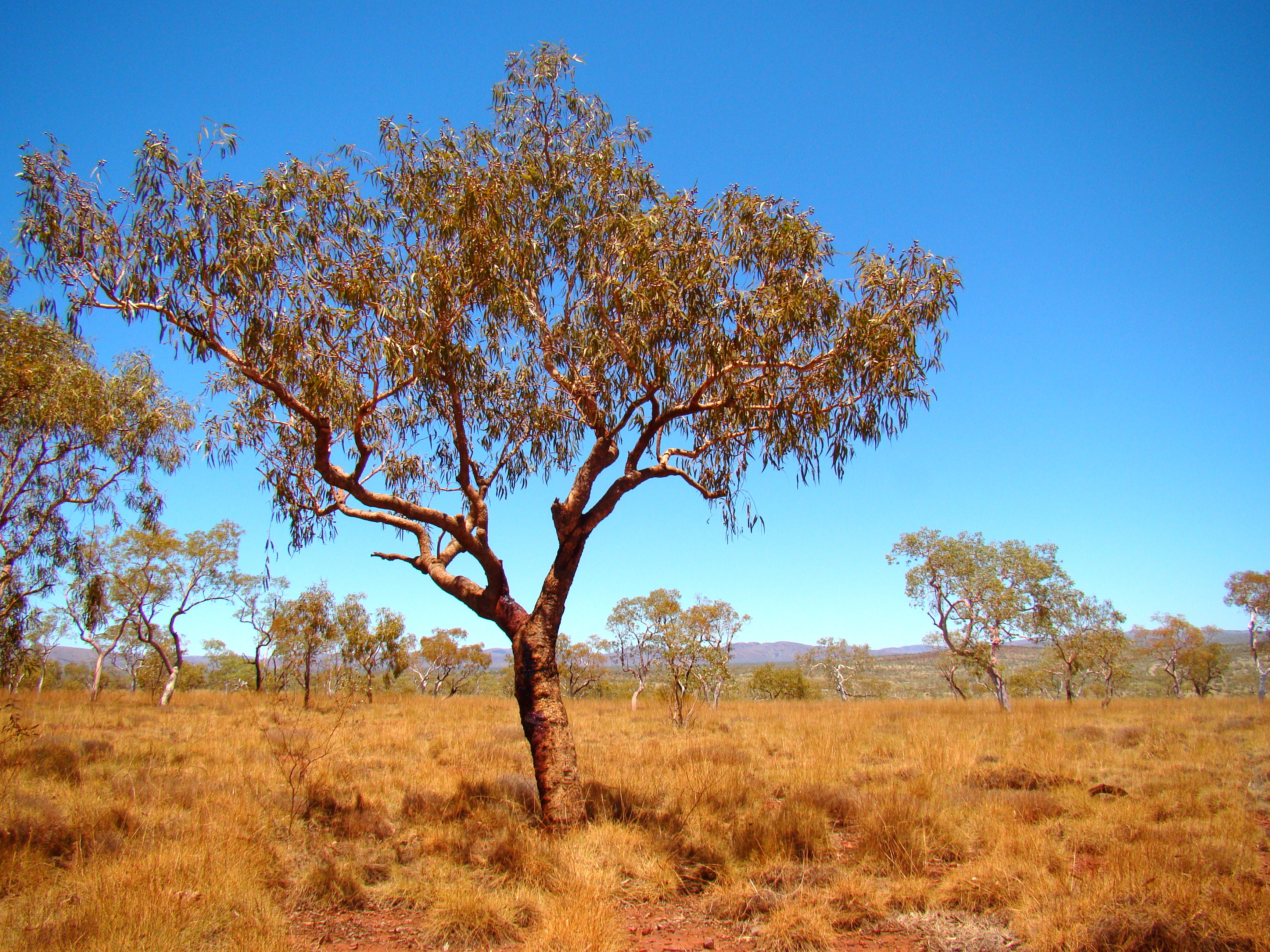 A bloodwood tree in Karijini National Park, Western Australia. Latin name Corymbia terminalis